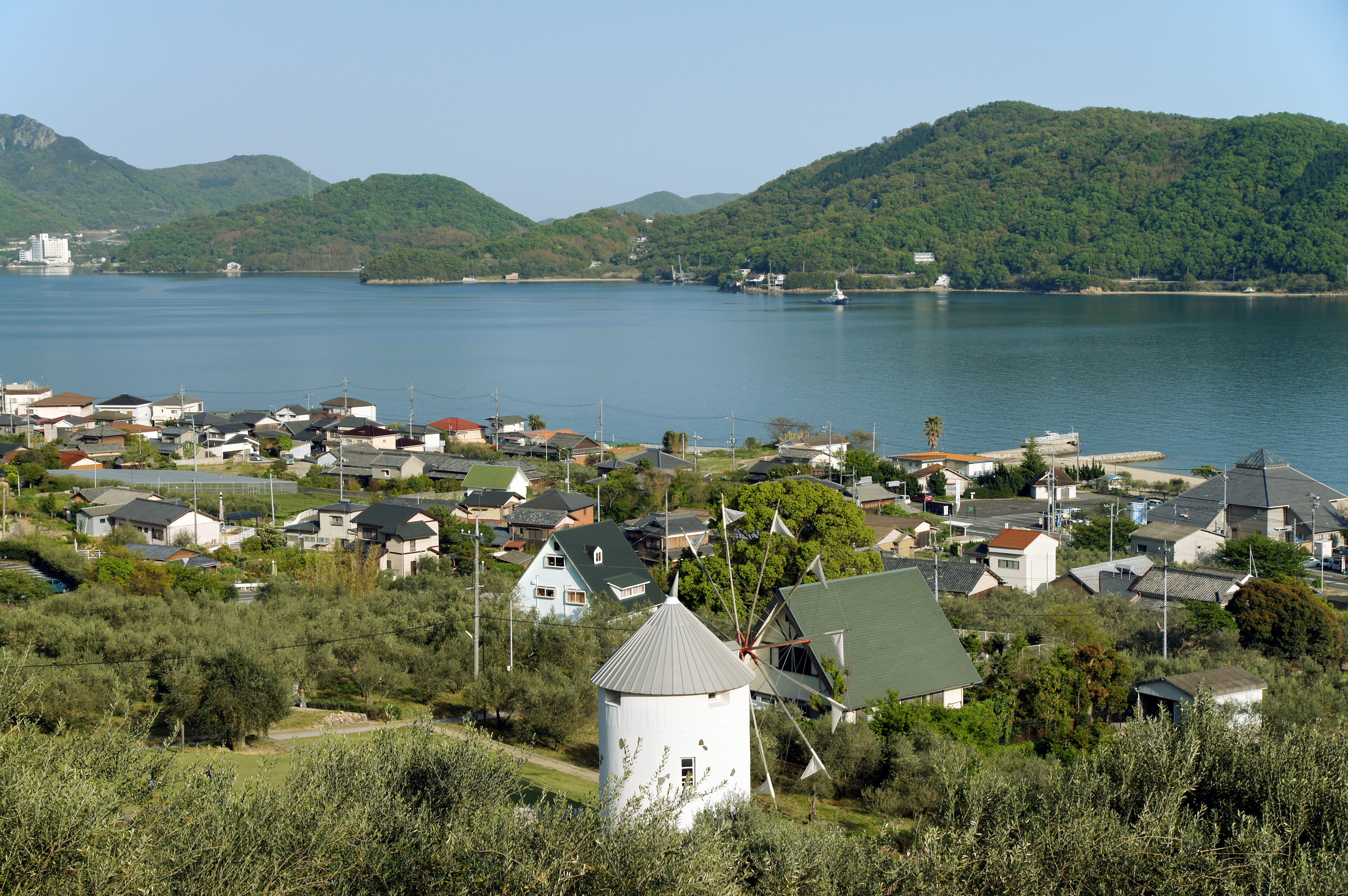 Shodoshima Olive Park of Shōdo Island, Shodoshima, Kagawa prefecture, Japan